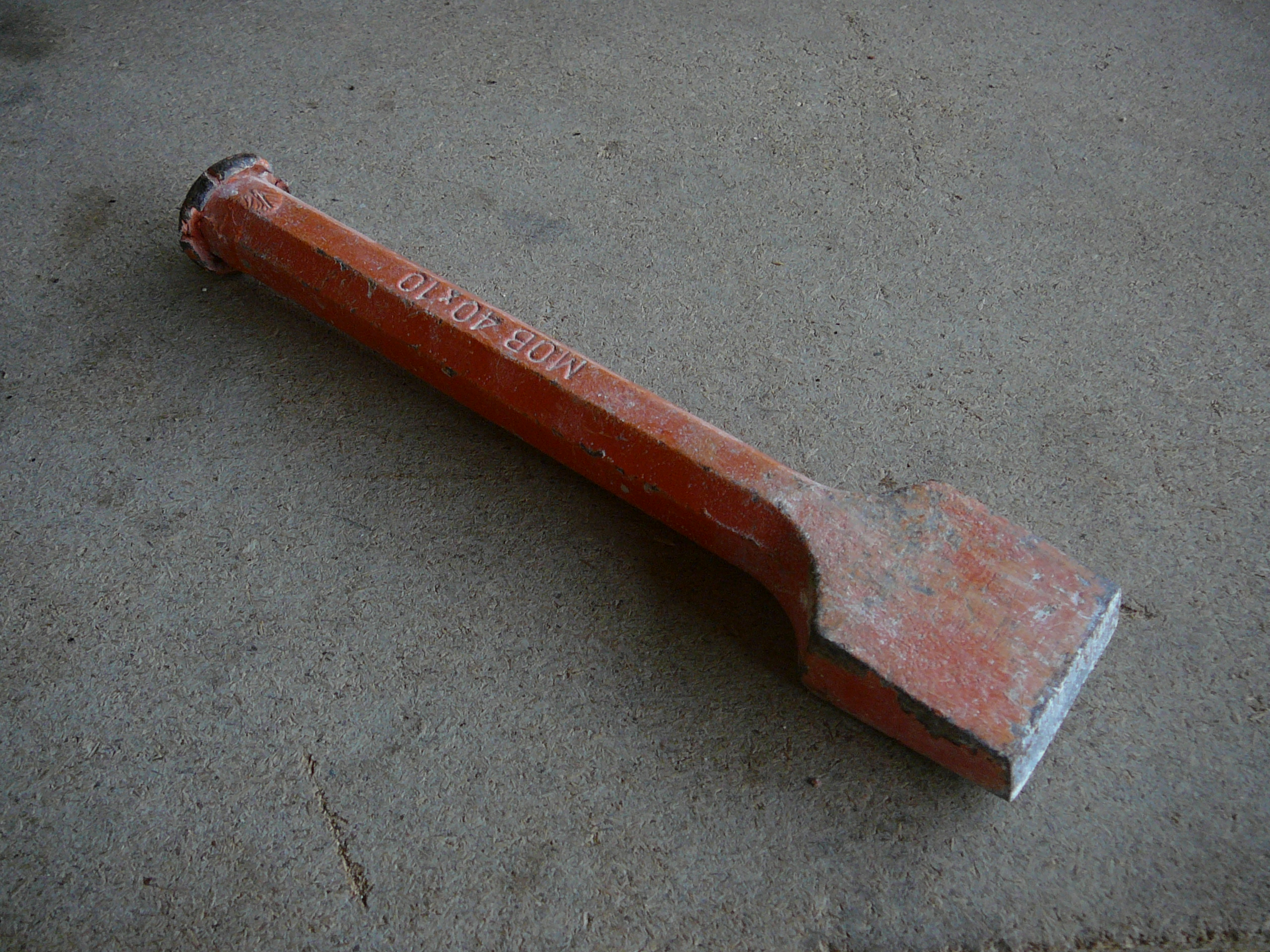 A stonemason's chisel